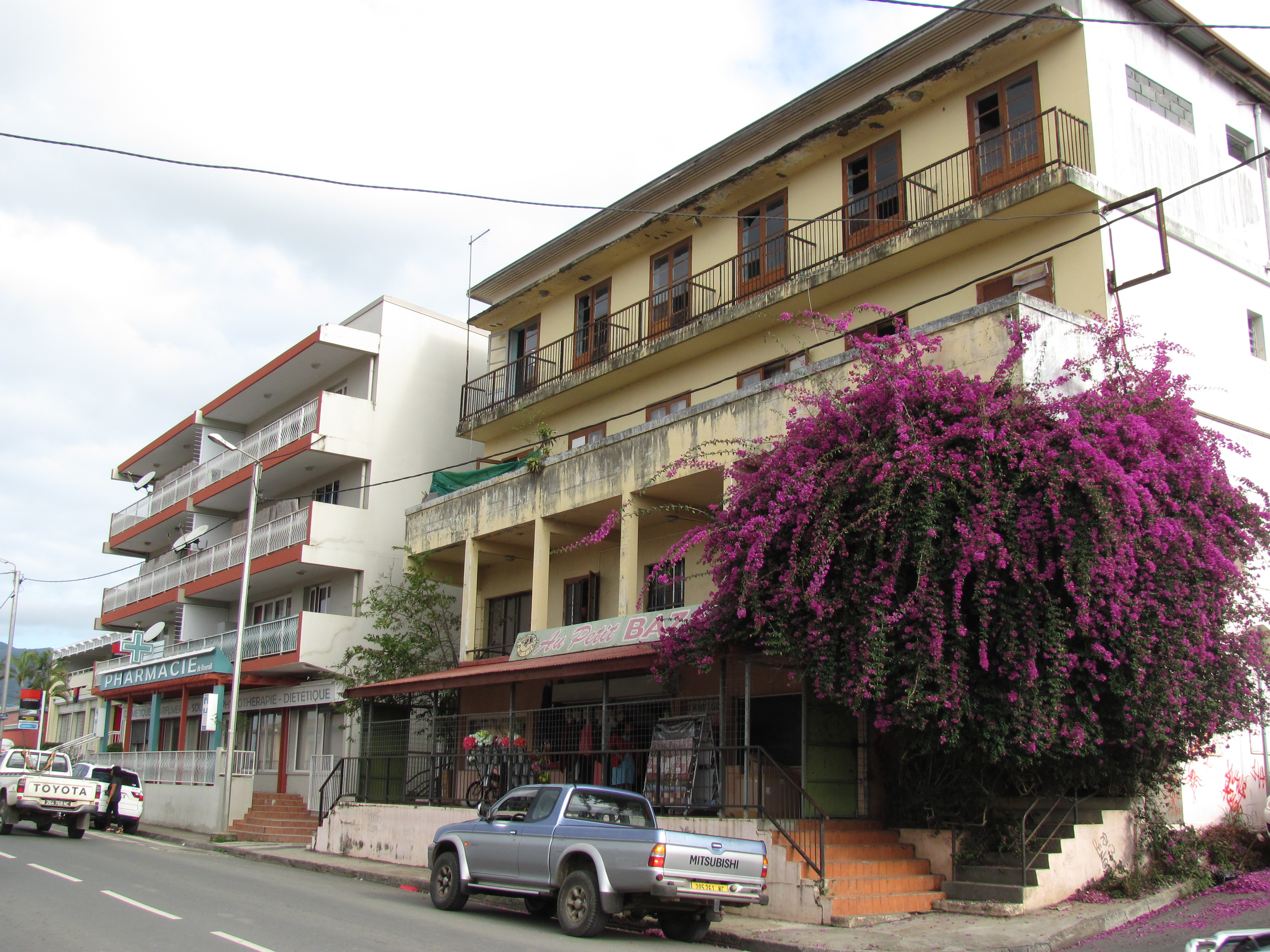 Main Street, Bourail, New Caledonia